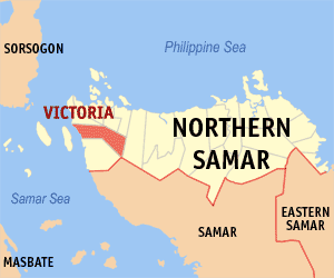 Map of Northern Samar showing the location of Victoria